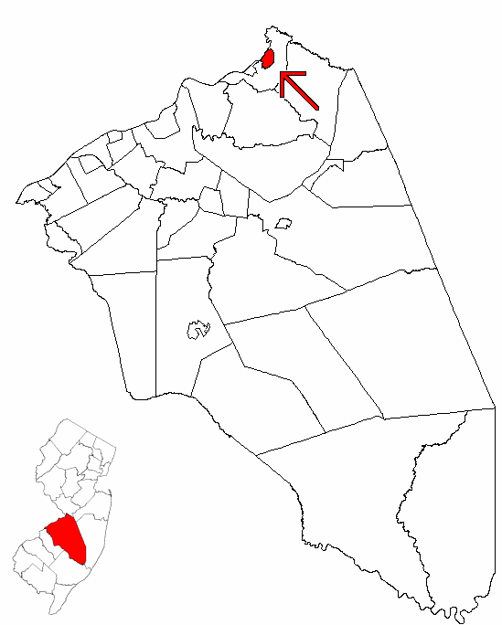 Map of Burlington County highlighting Bordentown.